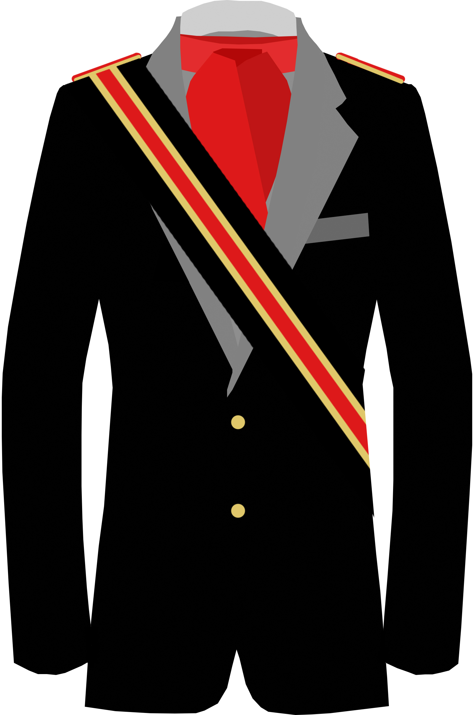 Teaterlosjen uniform